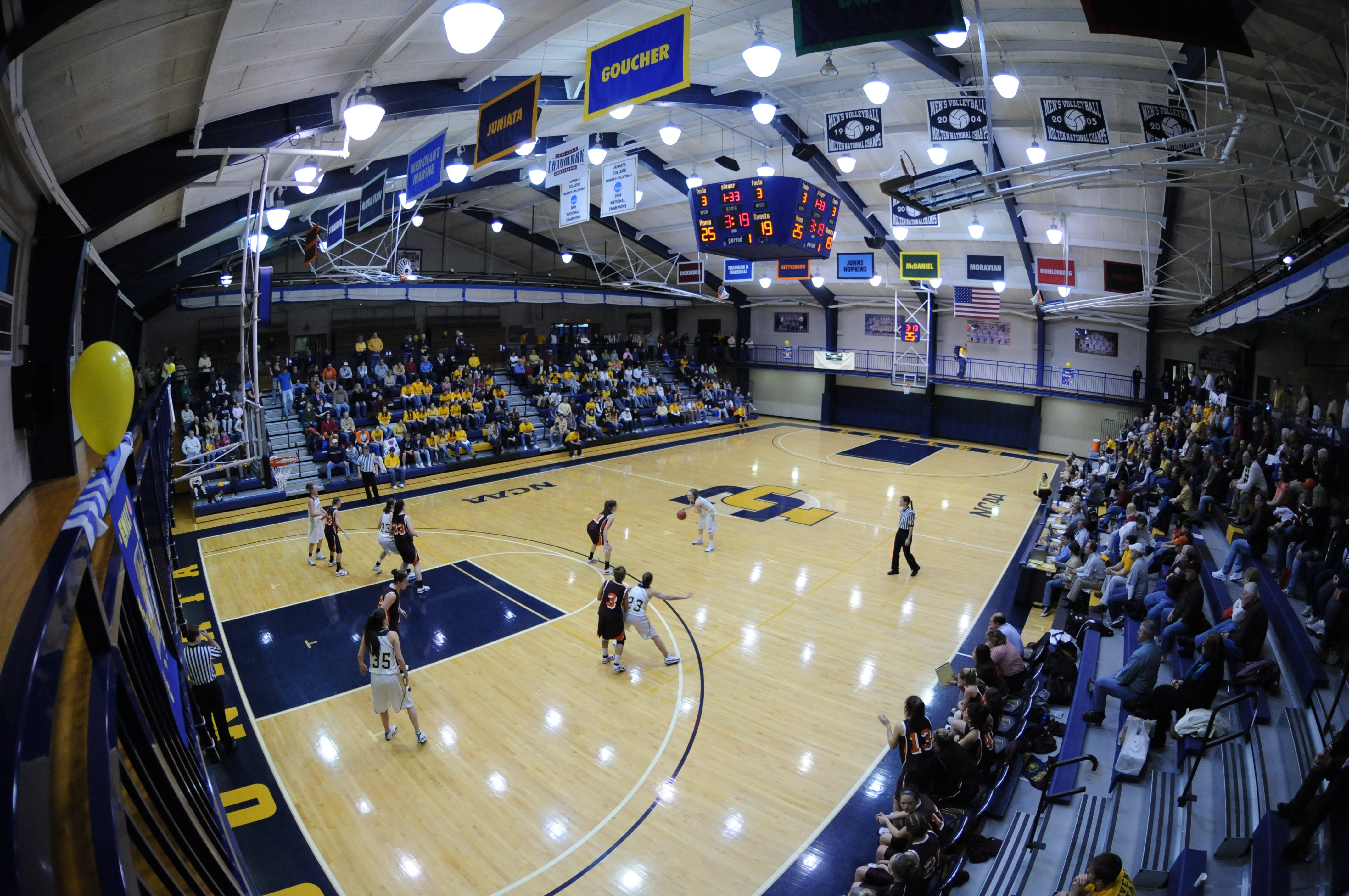 Sports Center